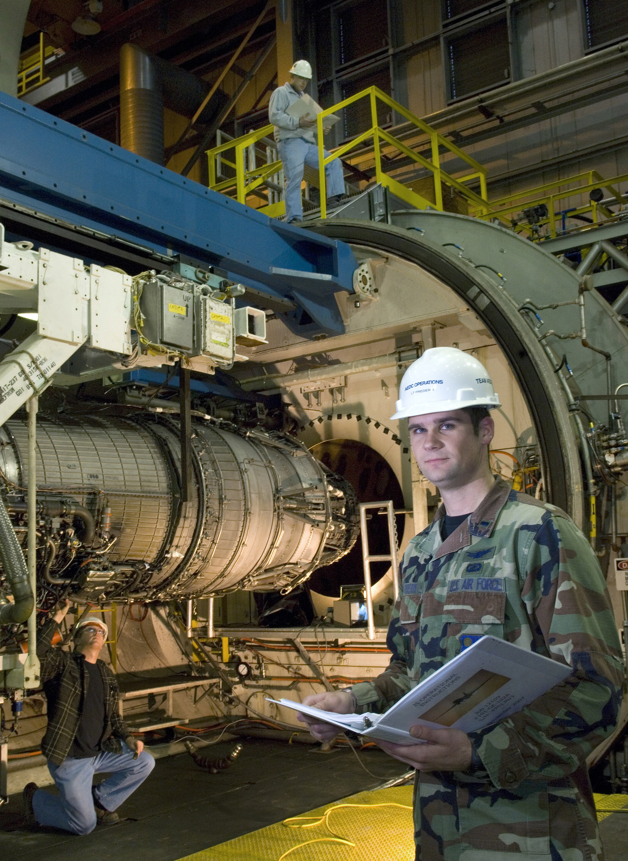 1st Lt. Josh Fredrick reviews maintenance checklists for a General Electric F101 engine being used for the initial testing of a 50-50 mix of Fisher-Trosch and JP-8 jet fuels at Arnold Engineering Development Center, Arnold Air Force Base, Tenn. The new synthetic fuel will reduce U.S. dependency on foreign oil and increase our choices for fuel. Lieutenant Fredrick is an air propulsion test project manger for the center. (U.S. Air Force photo/Staff Sgt. Bennie J. Davis)